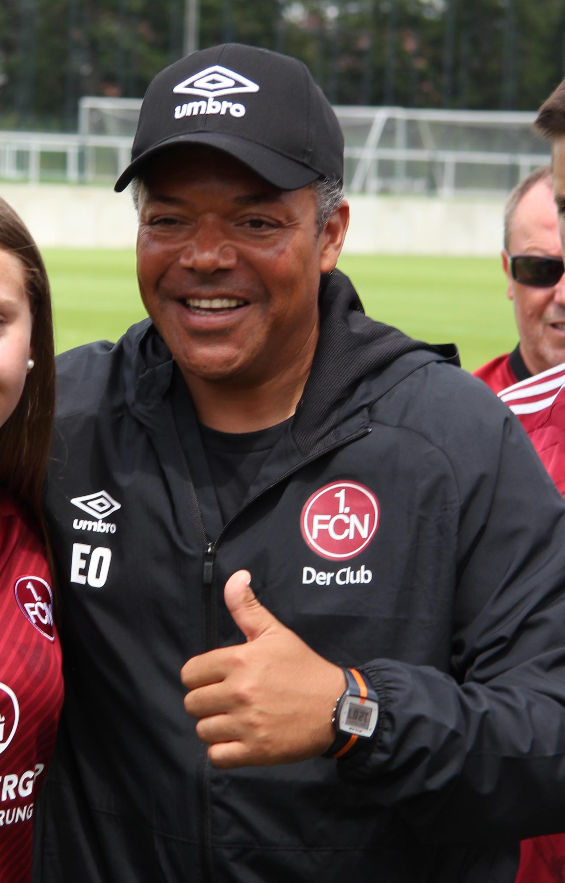 Eric Orie, Dutch assistant coach for German football side 1. FC Nürnberg, 2019/20 season